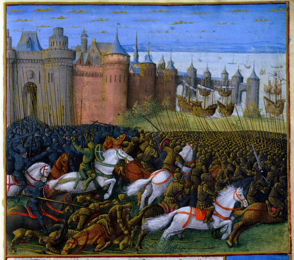 Siege of Tyre (1187)